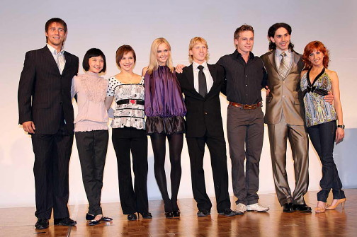 Team Russia at the 2009 ISU World Team Trophy in Figure Skating. From left to right: Alexander Smirnov, Yuko Kavaguti, Alena Leonova, Katarina Gerboldt, Konstantin Menshov, Sergei Voronov, Sergei Novitski, Jana Khokhlova